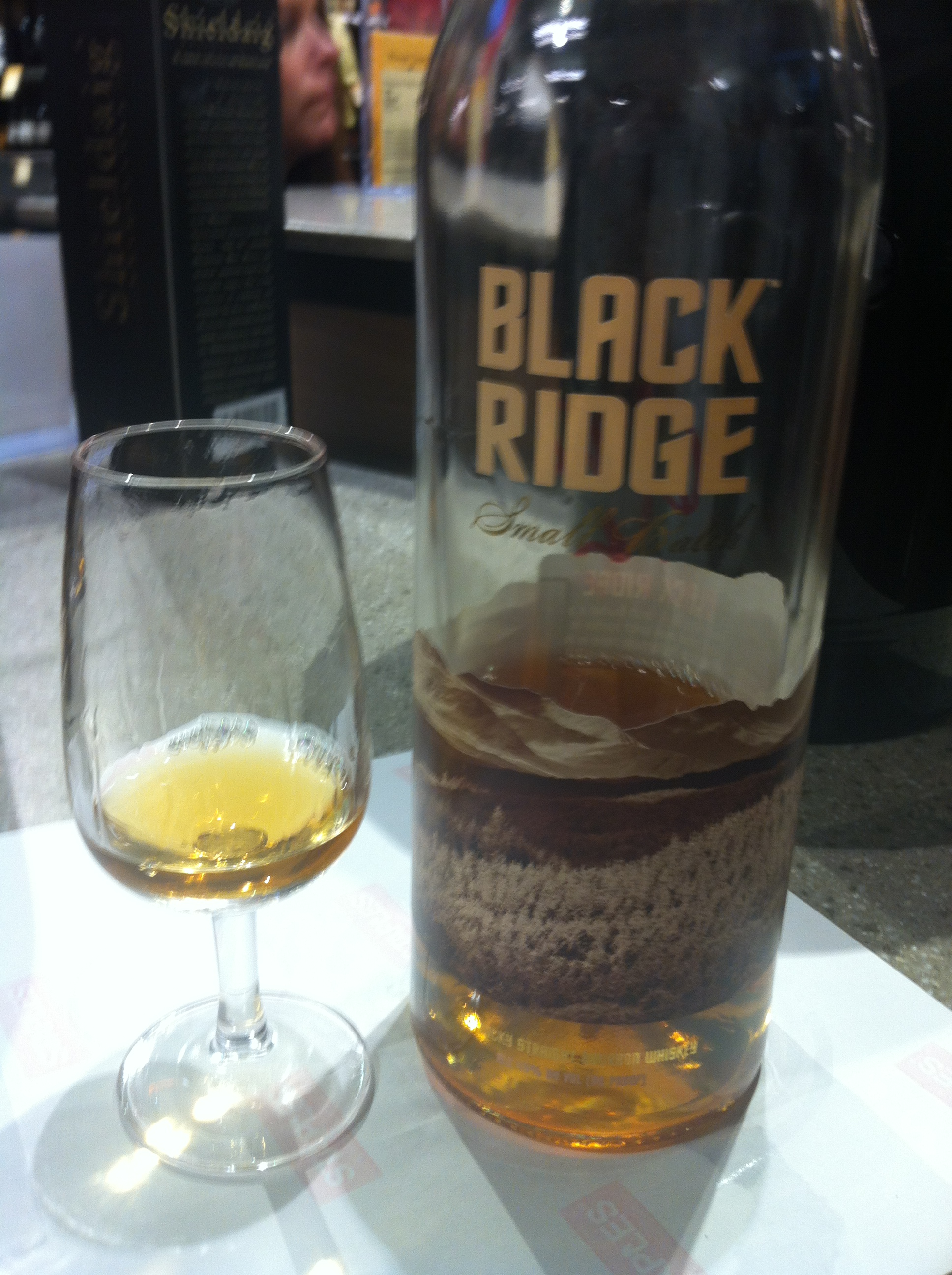 Kentucky straight small batch bourbon from a second label of Buffalo Trace.